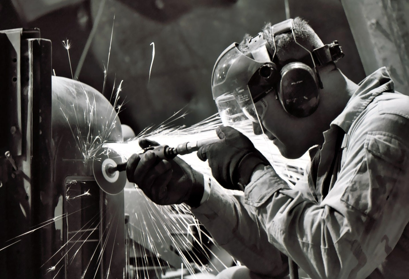 An Airman works on a truck as part of an expanded program to improve the armored protection for U.S. troops. Balad Air Base, Iraq (April 2005). Photo by Peter Rimar.